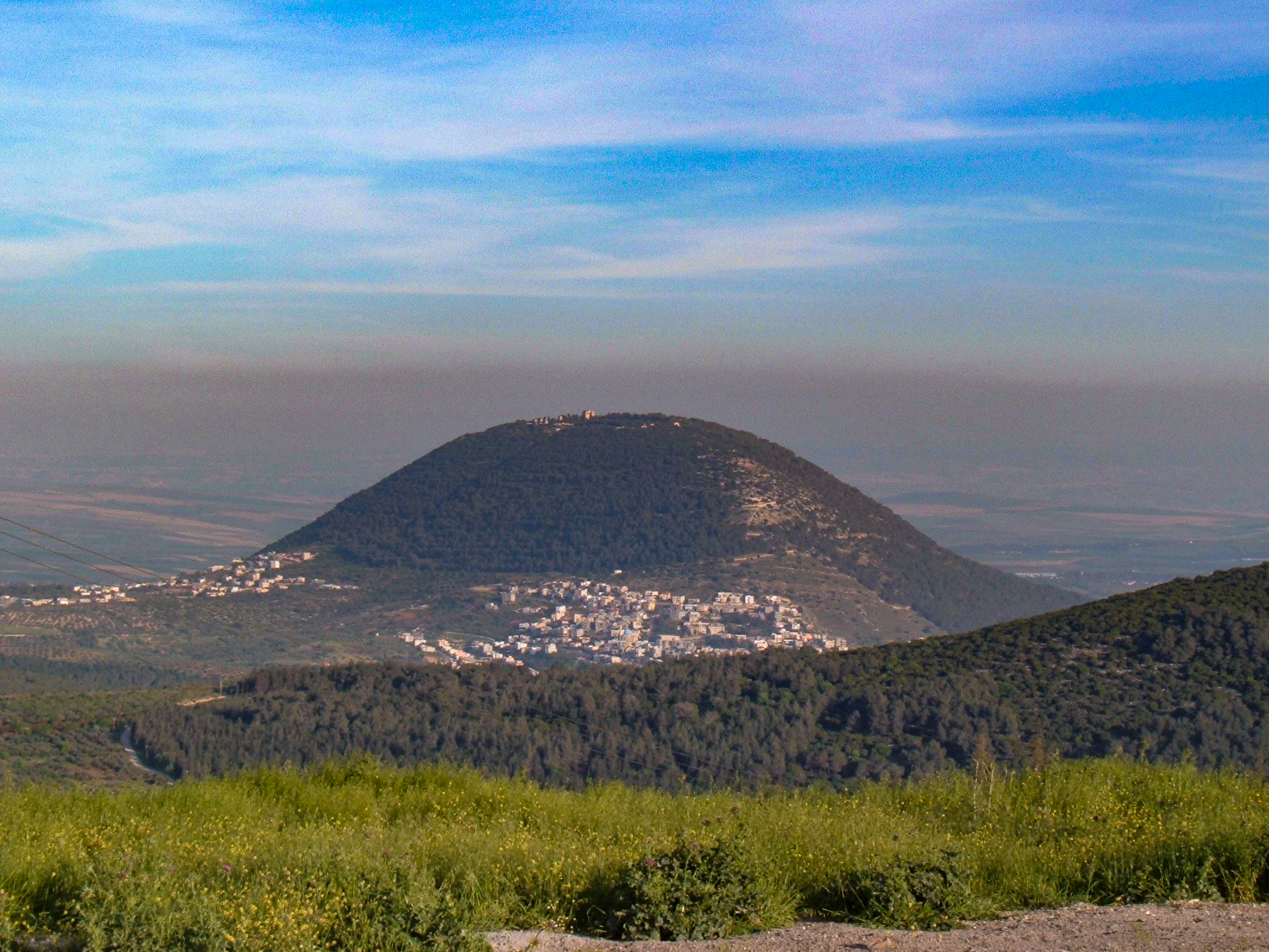 Mount Tabor with the village of Daburiyya in the foreground.